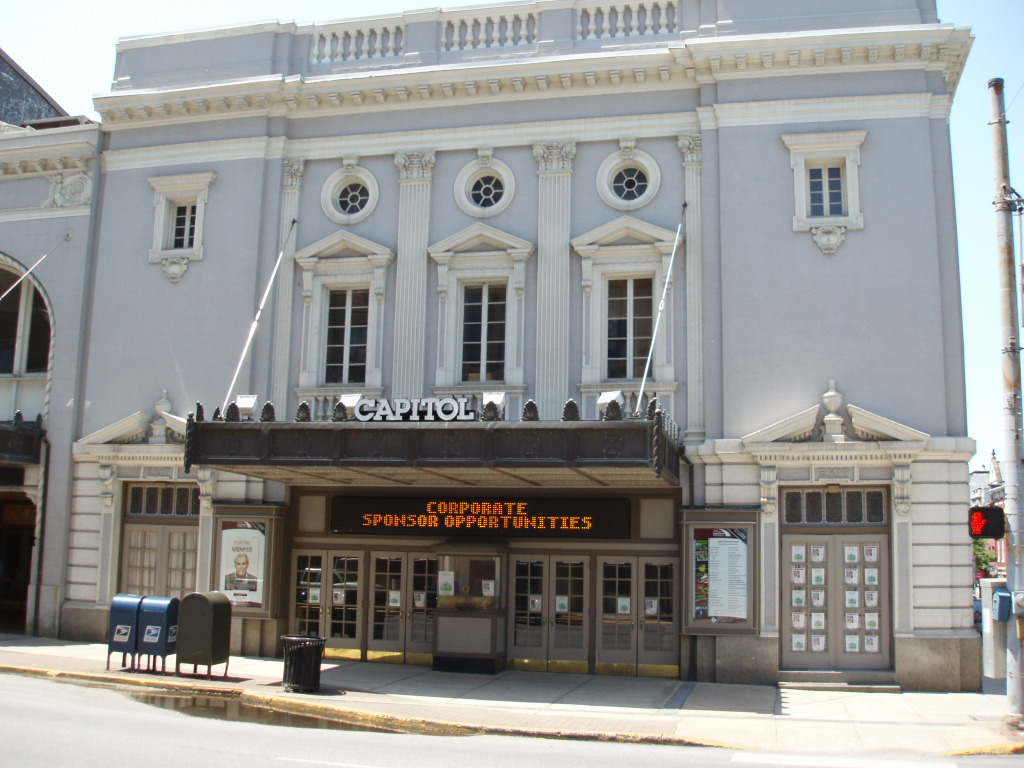 Strand-Capitol Performing Arts Center in York, Pennsylvania; renamed in 2017 to the Appell Center for the Performing Arts